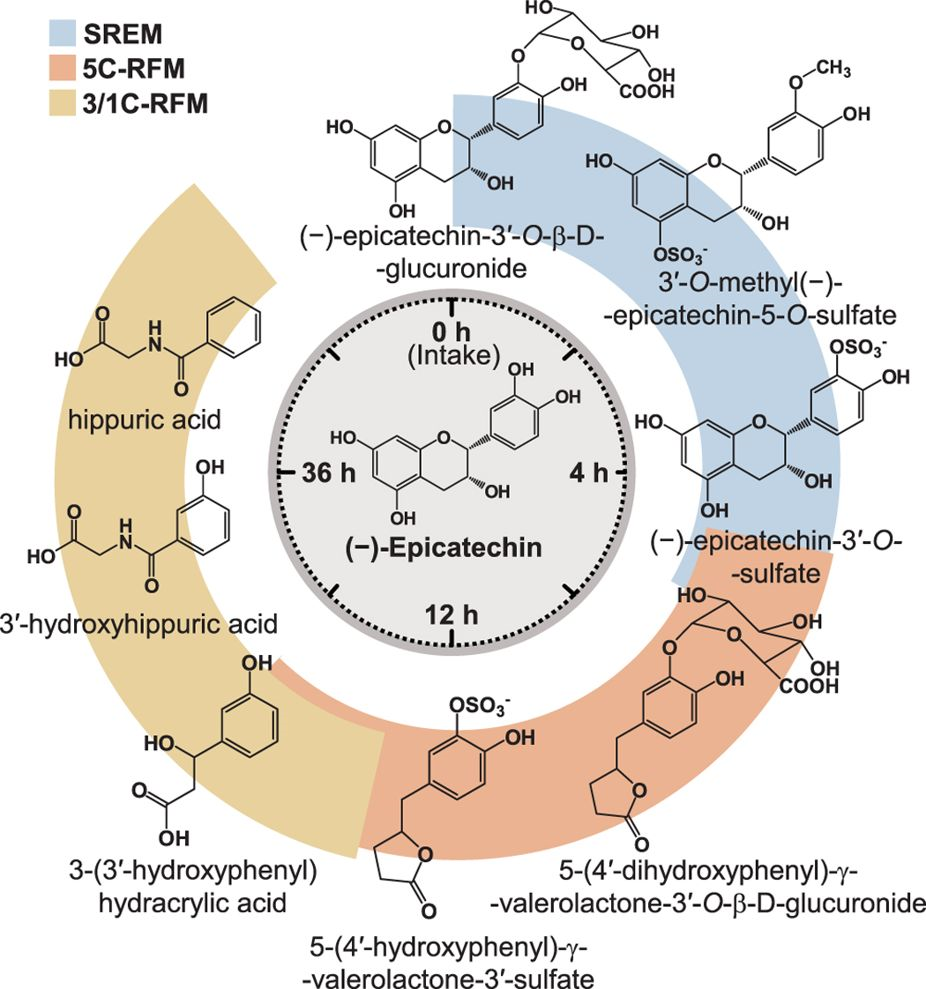 Schematic representation of (−)-epicatechin metabolism in humans as a function of time